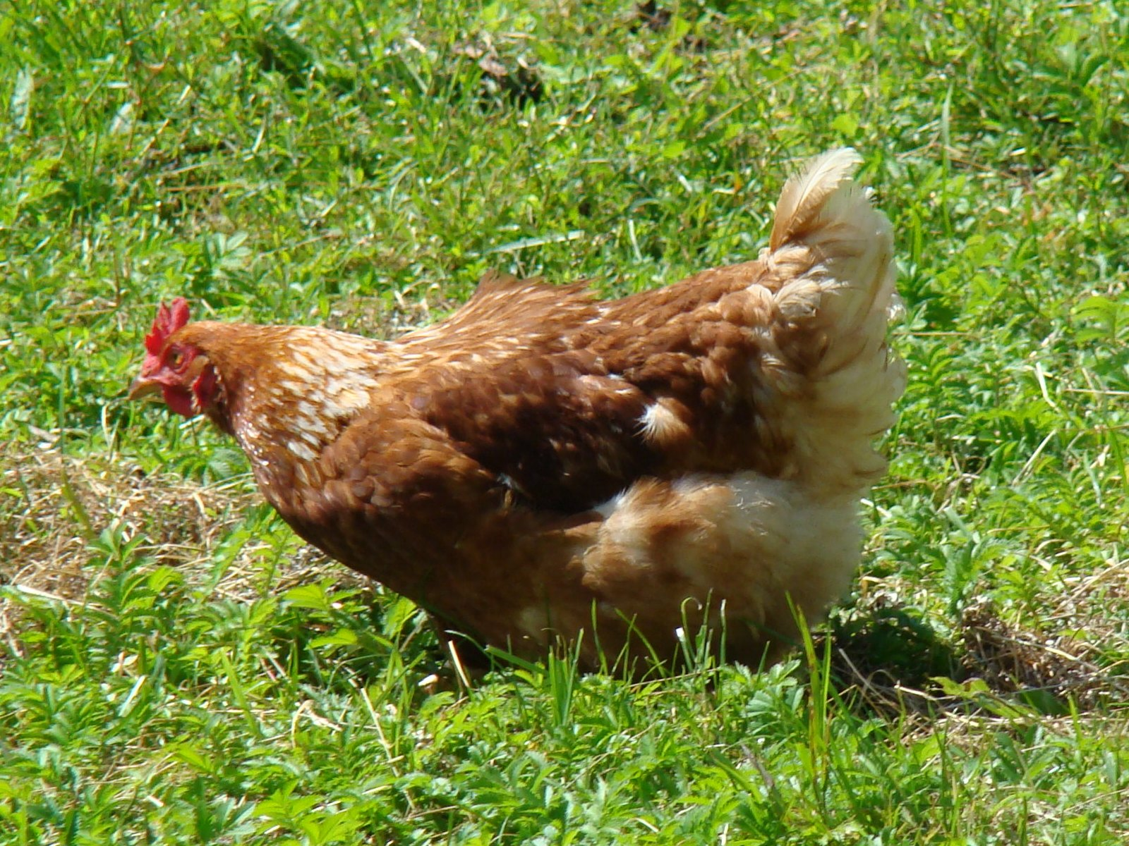 Photo of the Chicken (Gallus gallus) in in Duseikiai, Telsiai, Lithuania.